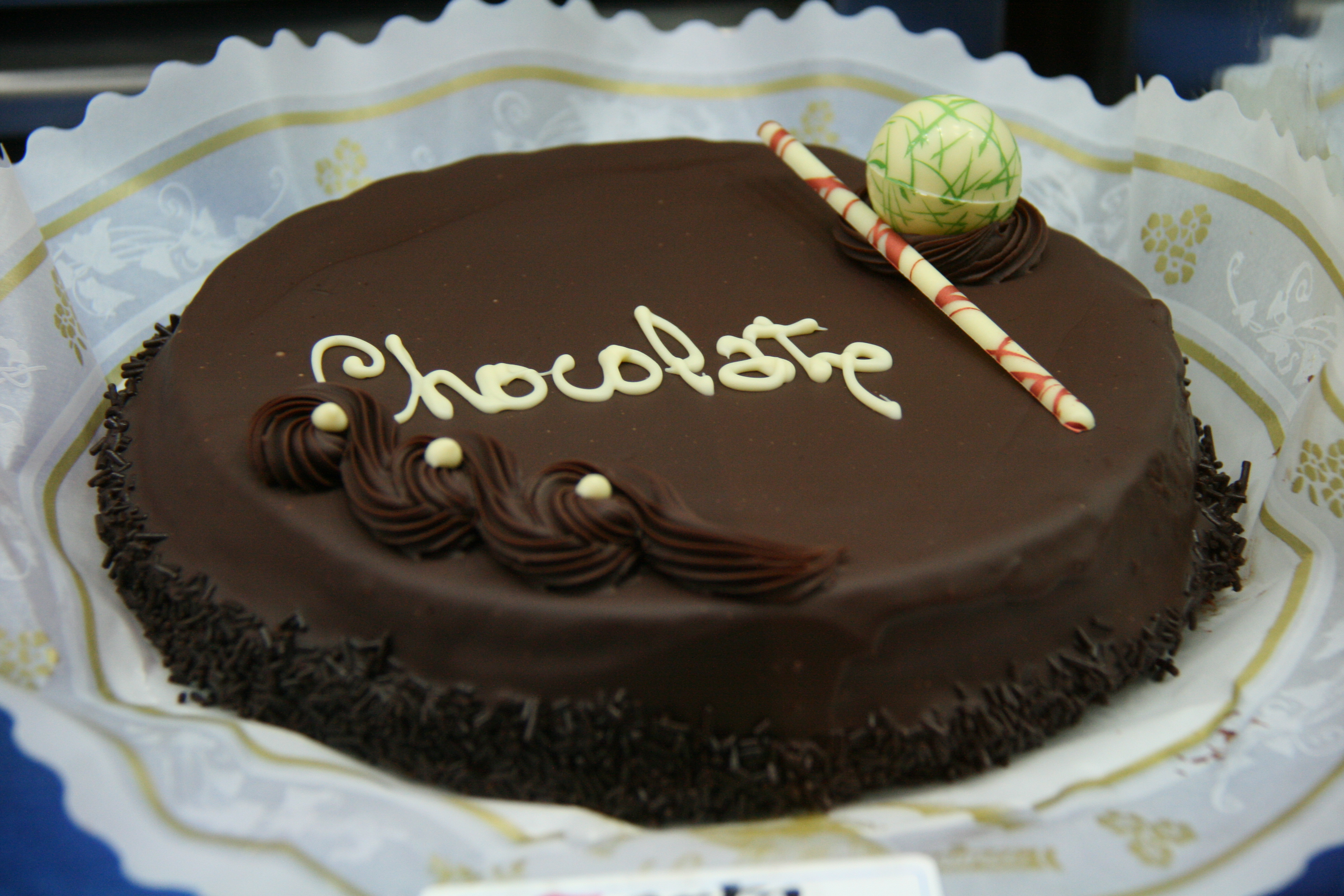 Chocolate tart